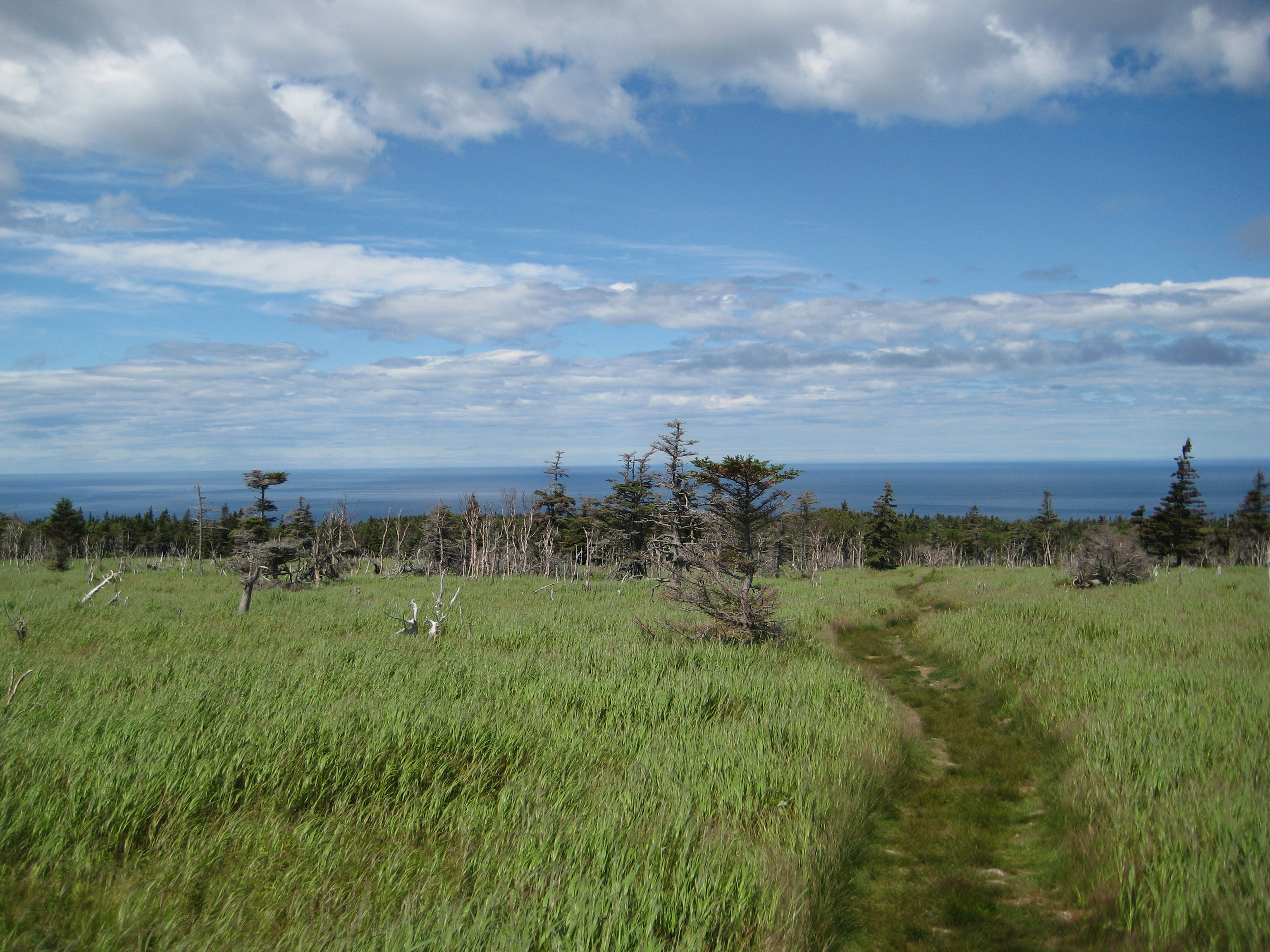 Skyline Trail Nova Scotia, second half